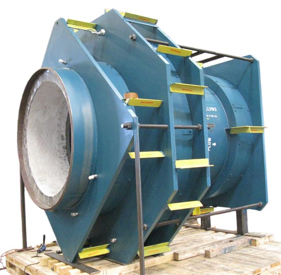 The inline pressure balanced expansion joints were manufactured for a clean fuels project in India. They are fabricated with Inconel 625 LCF bellows and ASTM A516 GR 70 carbon steel was used for the shell. The inside is lined with insulating and abrasion resistant refractory. The expansion joints were pressure tested with air at 15 PSIG prior to shipment.